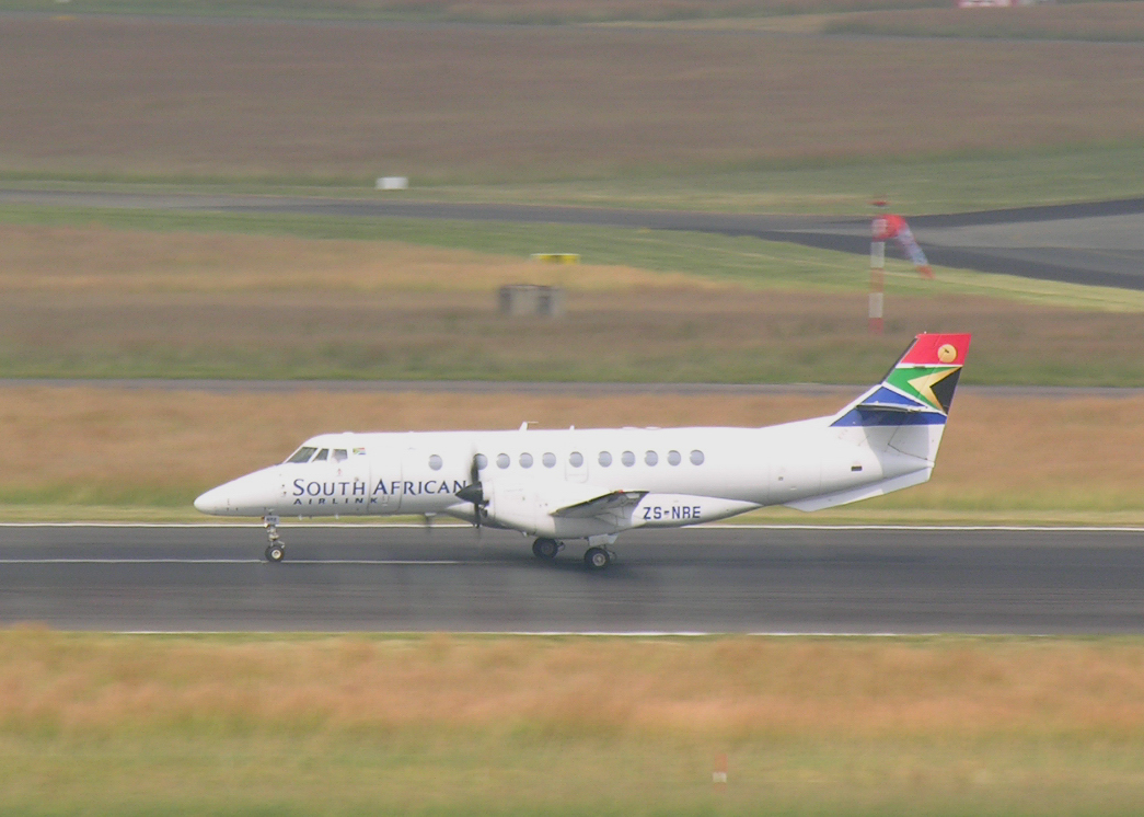 South Africa, South African Airlink British Aerospace Jetstream 41 ZS-NRE taking off at Johannesburg's O.R. Tambo International Airport